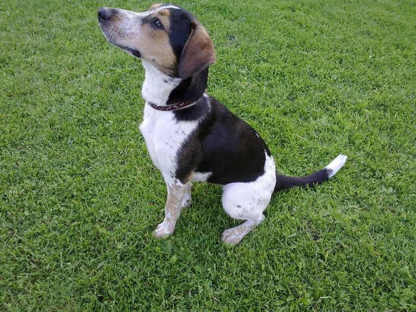 Bohemian Spotted Dog, female, Ajsha zo Strakatej koliby, born 2009-10-01